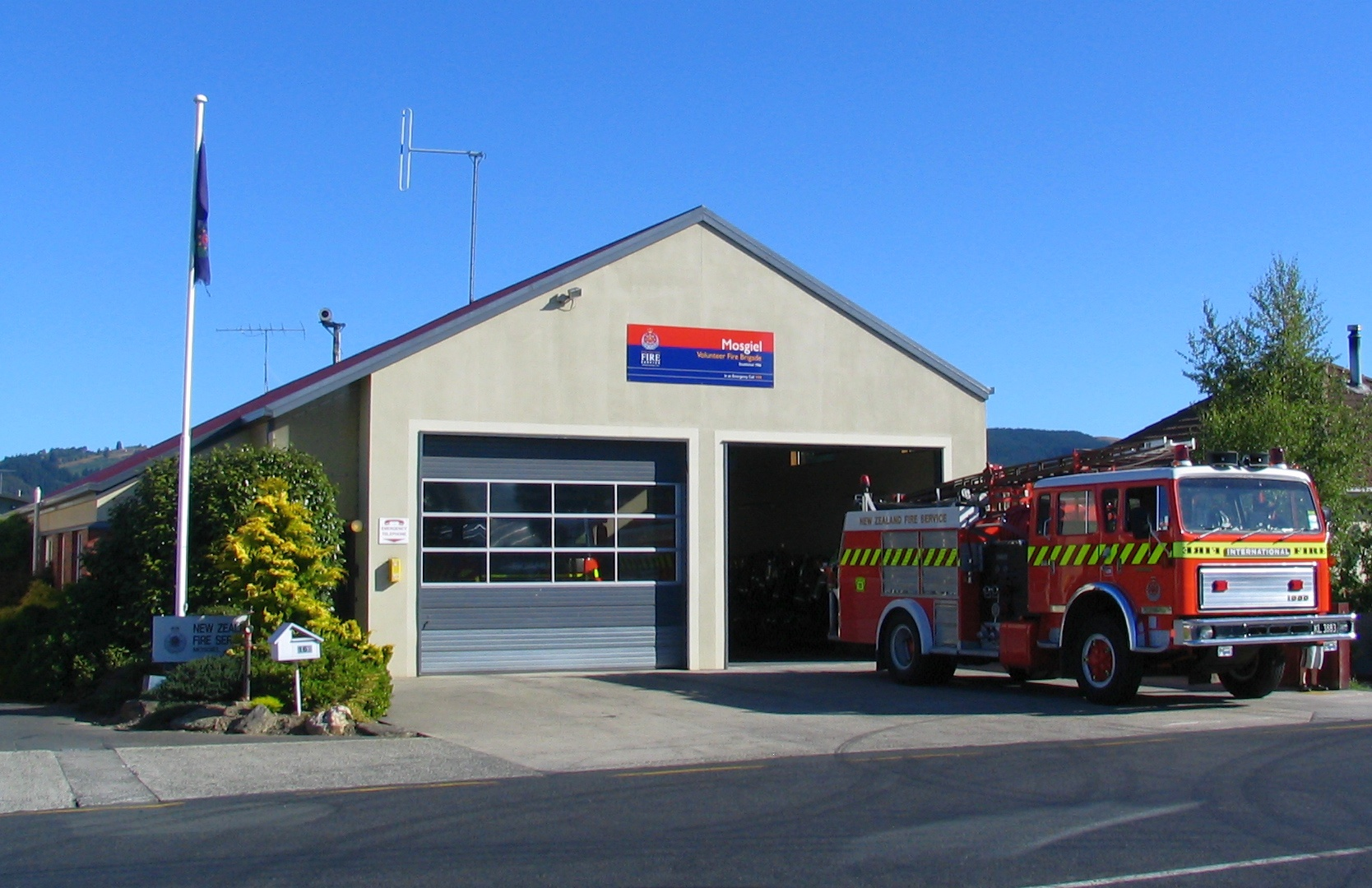 Mosgiel Fire Station, New Zealand, with an International 1900 fire appliance parked outside